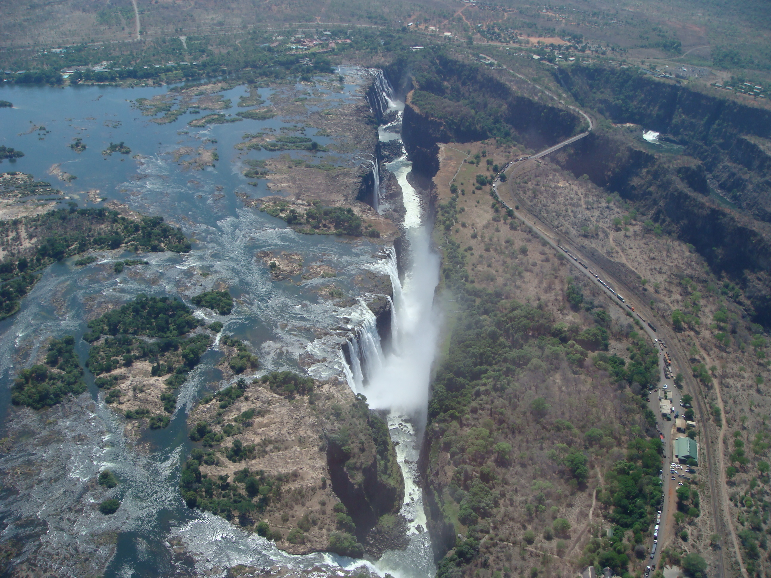 The Victoria Falls or Mosi-oa-Tunya (the Smoke that Thunders) is a waterfall situated in southern Africa between the countries of Zambia and Zimbabwe. The falls are, by some measures, the largest waterfall in the world, as well as being among the most unusual in form, and having arguably the most diverse and easily-seen wildlife of any major waterfall site. Although Victoria Falls constitute neither the highest nor the widest waterfall in the world, the claim it is the largest is based on a width of 1.7 km (1 mile) and height of 108 m (360 ft), forming the largest sheet of falling water in the world. The falls' maximum flow rate compares well with that of other major waterfalls . The unusual form of Victoria Falls enables virtually the whole width of the falls to be viewed face-on, at the same level as the top, from as close as 60 m (200 ft), because the whole Zambezi River drops into a deep, narrow slotlike chasm, connected to a long series of gorges. Few other waterfalls allow such a close approach on foot. Many of Africa's animals and birds can be seen in the immediate vicinity of Victoria Falls, and the continent's range of river fish is also well represented in the Zambezi, enabling wildlife viewing and sport fishing to be combined with sightseeing. Victoria Falls are one of Africa's major tourist attractions, and are a UNESCO World Heritage Site (see box below). The falls are shared between Zambia and Zimbabwe, and each country has a national park to protect them and a town serving as a tourism centre: Mosi-oa-Tunya National Park and Livingstone in Zambia, and Victoria Falls National Park and the town of Victoria Falls in Zimbabwe.